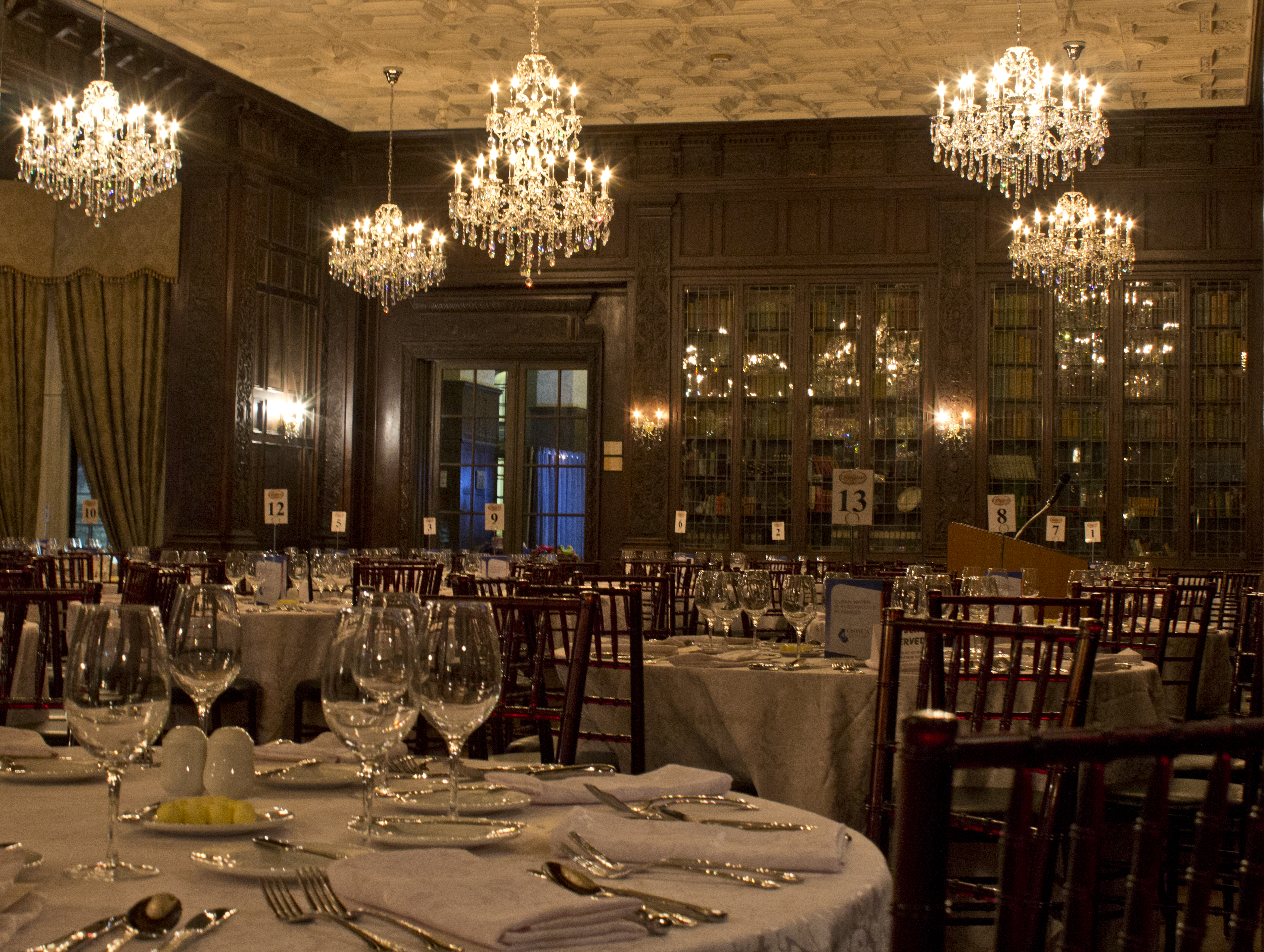 Interior of Library at Casa Loma set for function.